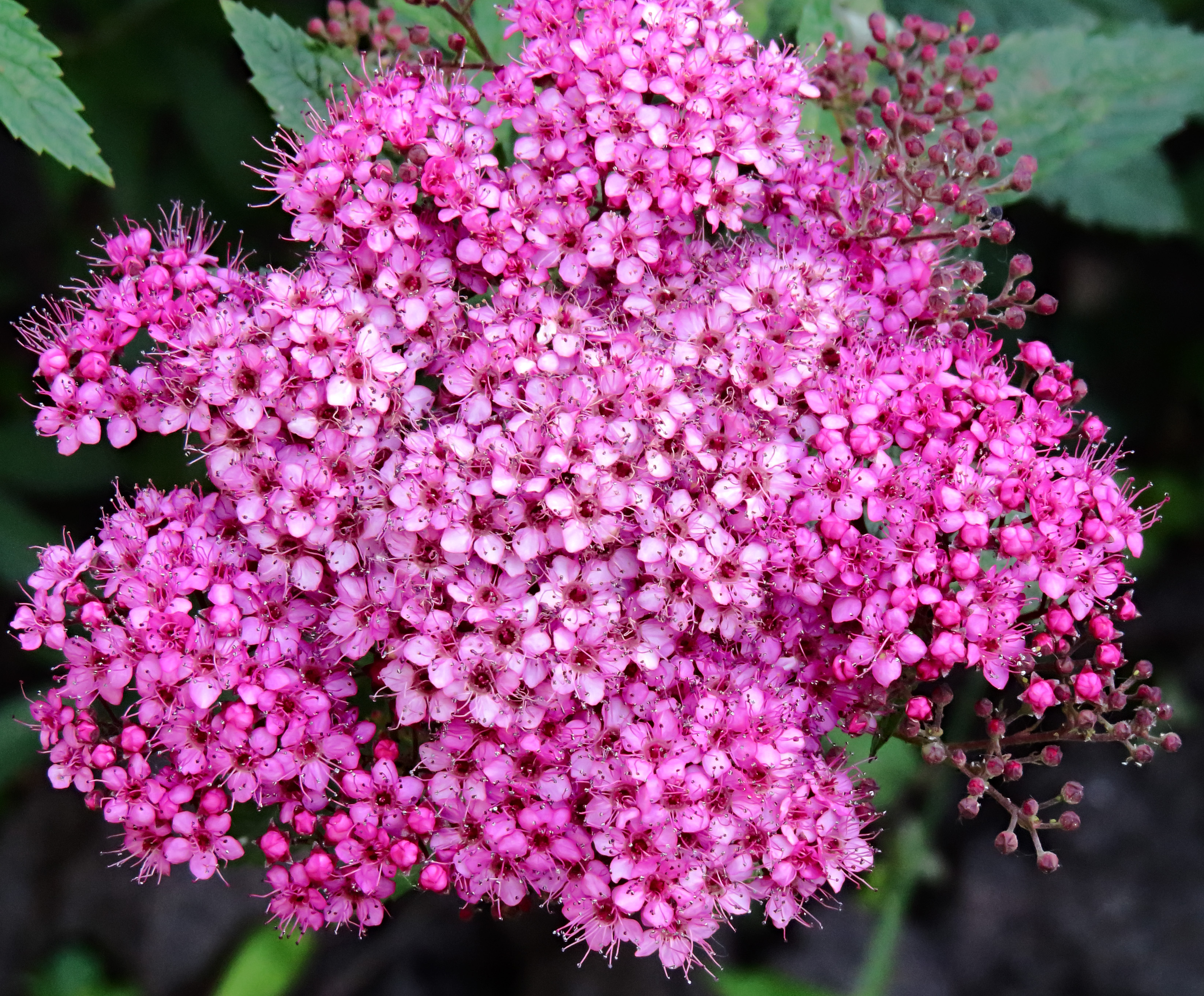 Spiraea japonica `Alpina`. Fomin botanical garden, Kiev, Ukraine